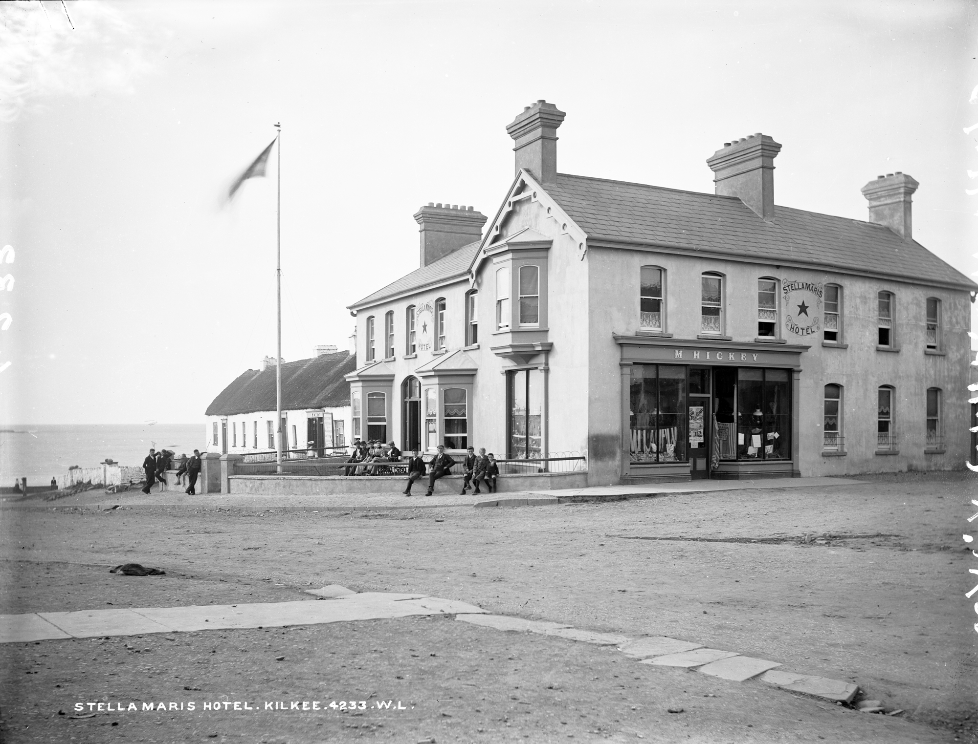 Tourists and locals taking their ease outside the Stella Maris Hotel in Kilkee. Hope that's a sleeping dog in the foreground... This photo was taken in the late 19th century, probably by Robert French, chief photographer of William Lawrence Photographic Studios of Dublin. You can compare this view of Kilkee with its companion photo taken approximately 100 years later as part of the Lawrence Photographic Project 1990/1991, where one thousand photographs from the Lawrence Collection in the National Library of Ireland were replicated a hundred years later by a team of volunteer photographers, thereby creating a record of the changing face of the selected locations all over Ireland. For further information on the Lawrence Photographic Project, read all about it on our NLI Blog. Date: 1890??? NLI Ref.: L_ROY_04233